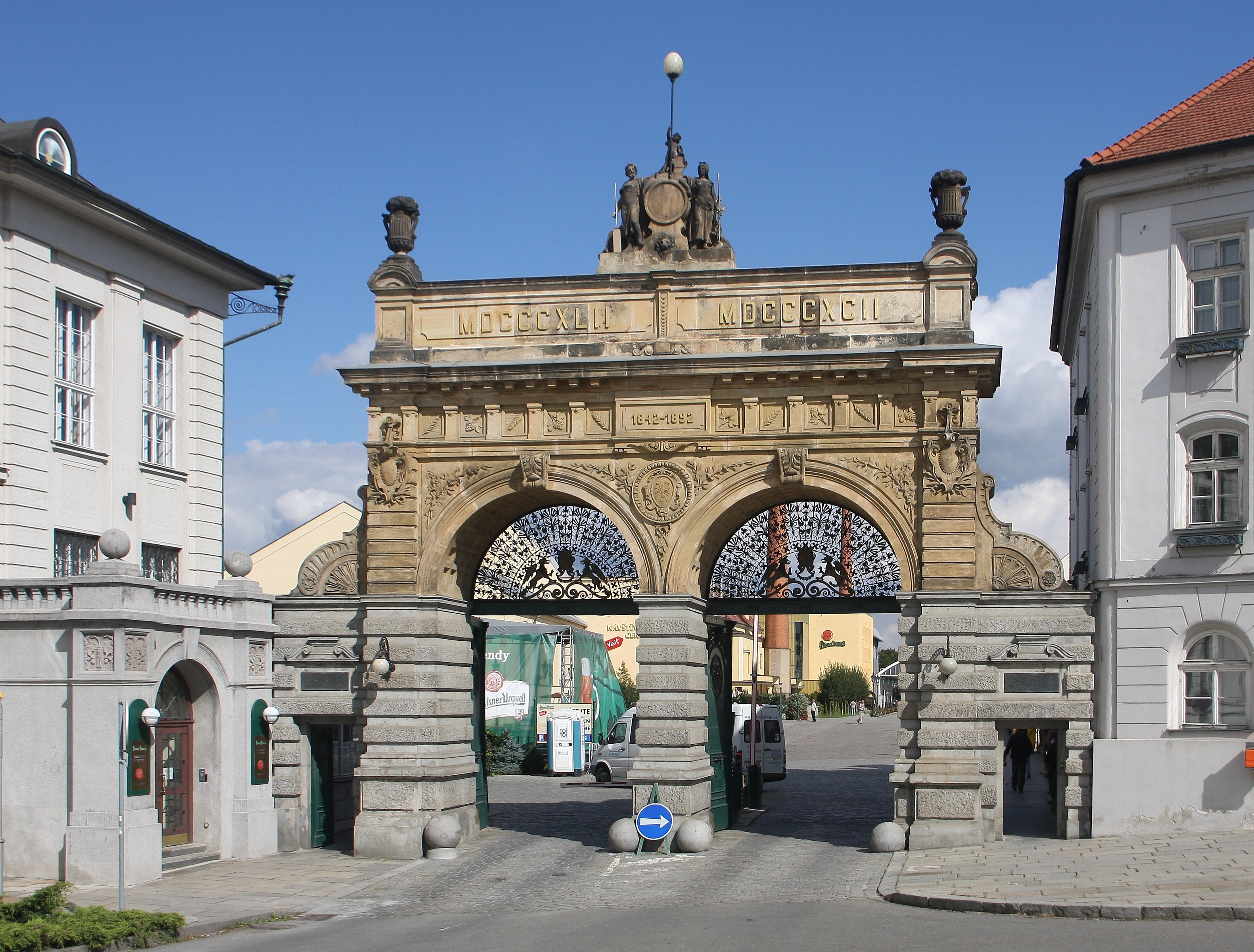 Gate of Pilsner Urquell Brewery in Plzeň, Czech Republic